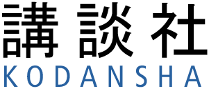 Kodansha logo, created in Photoshop. Fonts used: MS Gothic and Frutiger LT Cn.